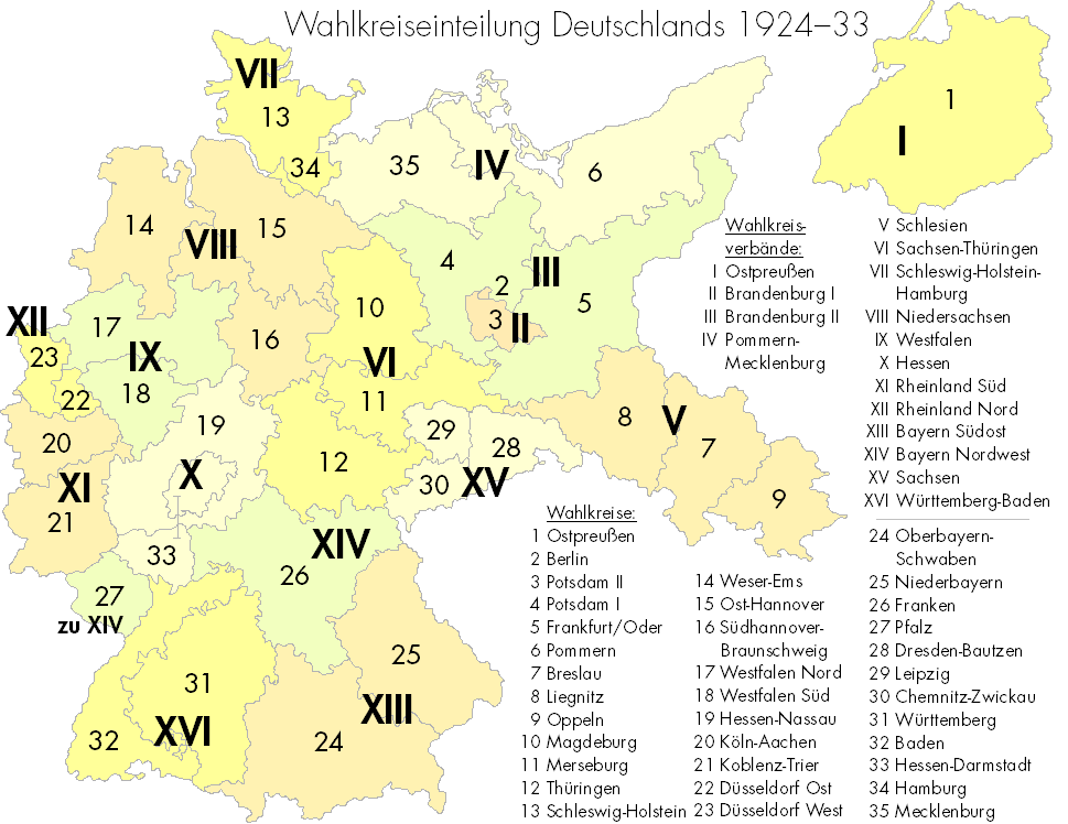 Map showing the 35 constituencies of Germany between 1924 and 1933.